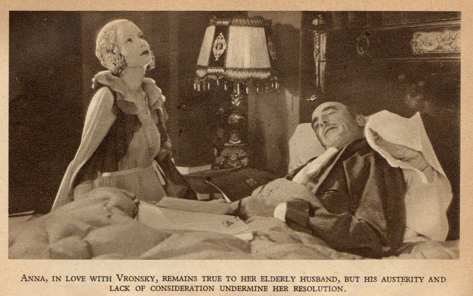 Greta Garbo and George Fawcett in the film ‘Love’ (1927)